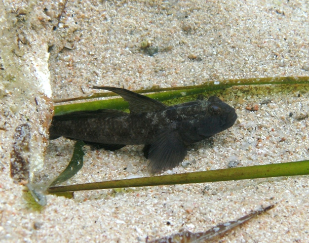 Gobius niger photographed in Sardinia, Italy